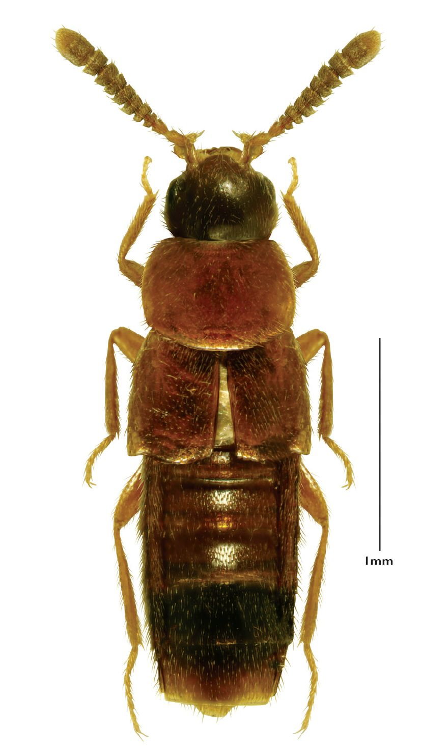 Dorsal habitus of Oxypoda stanleyi.